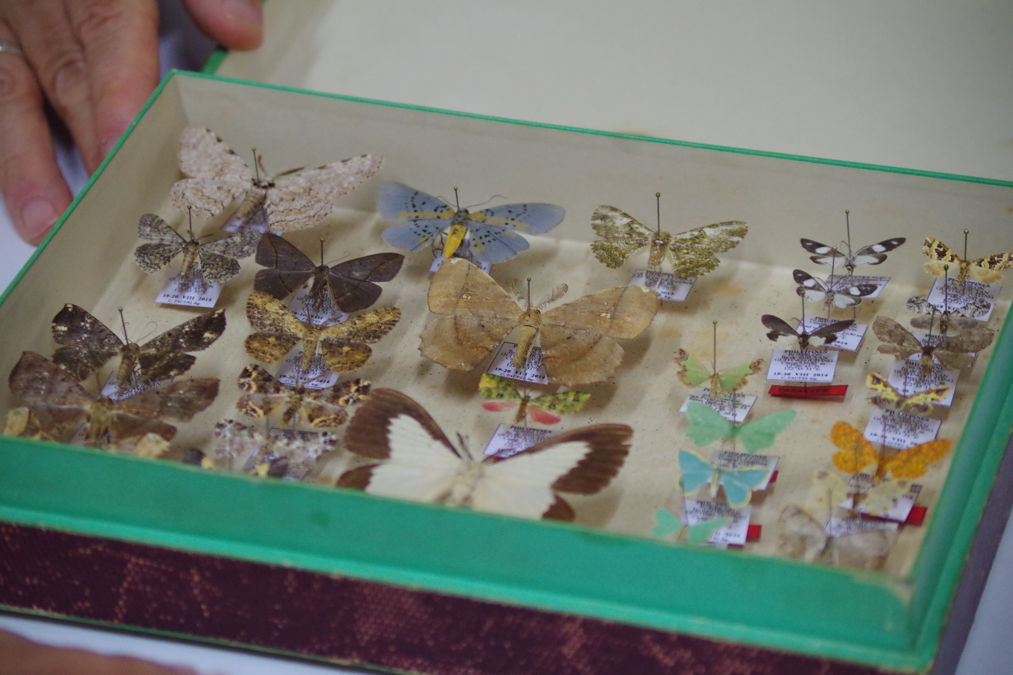 A collection of moths that needed to be identified and verified by moth expert and Museum curator, Dr. Aimee Lynn Dupo.